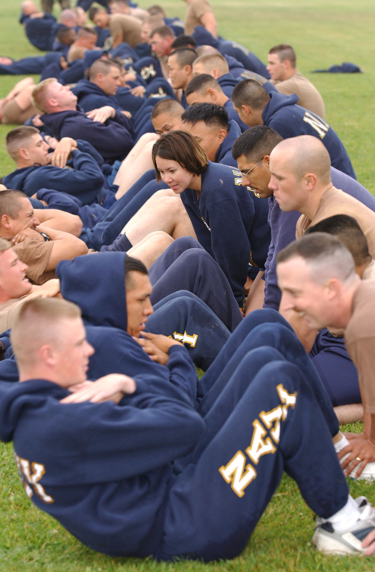 Ventura County, Calif. (May 23, 2003) -- Seabees assigned to the "Fighting Forty" of Naval Mobile Construction Battalion Forty (NMCB-40) conduct their sit-up portion of the Navy Physical Readiness Test (PRT) at Naval Base Ventura County. The PRT is conducted bi-annually, Navy-wide. U.S. Navy photo by Photographer's Mate Airman Lamel J. Hinton. (RELEASED)